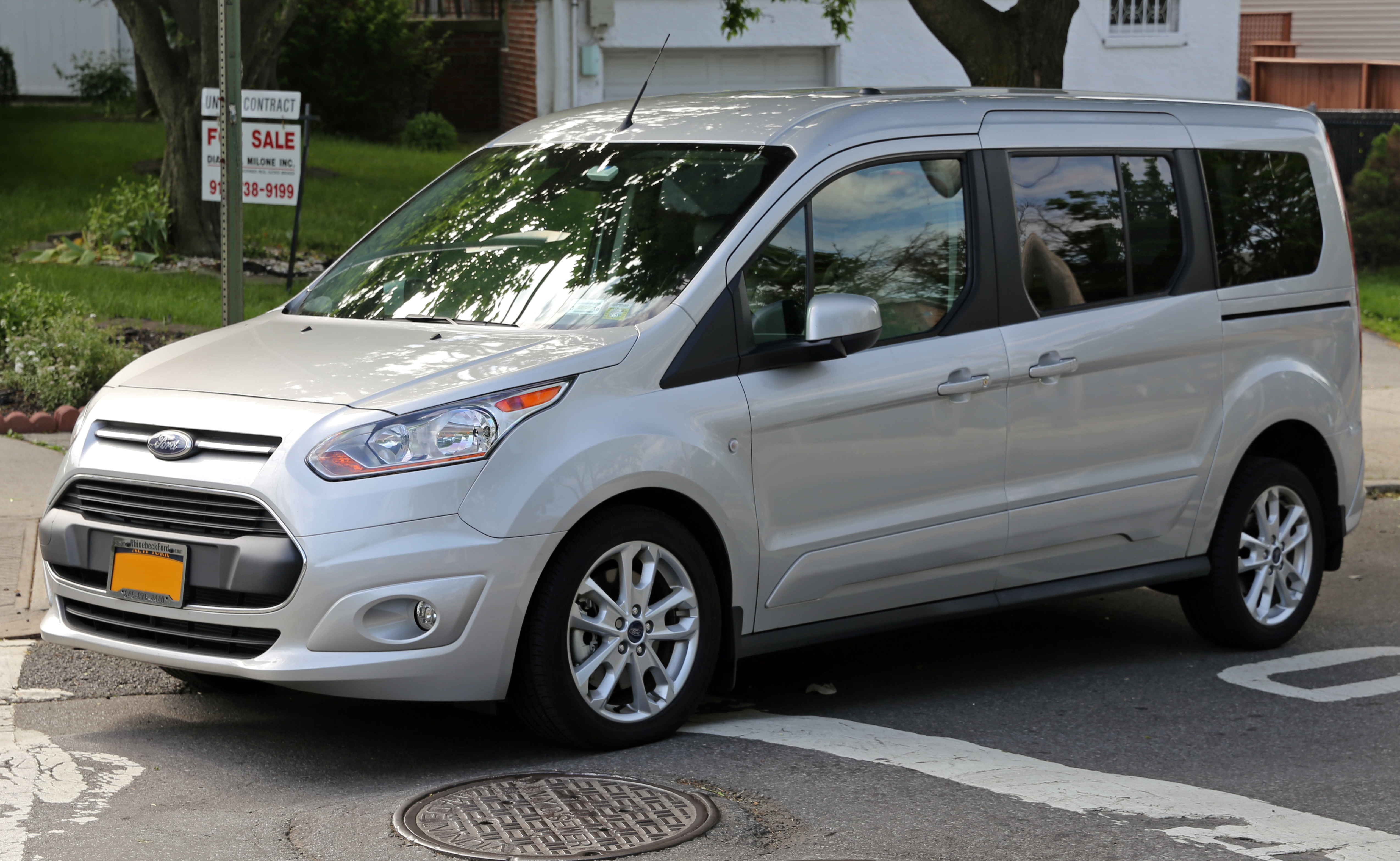 Front left side view of a 2014 Ford Transit Connect Wagon Titanium LWB, with the top opening rear gate. Built in Otosan's plant in Turkey.